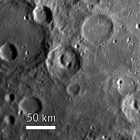 MESSENGER's Narrow Angle Camera (NAC) on the Mercury Dual Imaging System (MDIS) acquired this view of Mercury’s surface illuminated obliquely from the right by the Sun. The unnamed crater (52 kilometers, or 31 miles, in diameter) in the center of the image displays a telephone-shaped collapse feature on its floor. Such a collapse feature could reflect past volcanic activity at and just below the surface of this particular crater. MESSENGER team members are examining closely the more than 1200 images returned from this flyby for other surface features that can provide clues to the geological history of the innermost planet. The crater is located in the southern hemisphere of Mercury, on the side that was not viewed by Mariner 10 during any of its three flybys (1974-1975). This scene was imaged while MESSENGER was departing from Mercury from a distance of about 19,300 kilometers (12,000 miles), about 1 hour after the spacecraft's closest encounter with Mercury. The image is of a region approximately 236 kilometers (147 miles) across, and craters as small as 1.6 kilometers (1 mile) can be seen. Mission Elapsed Time (MET) of image: 108828208 The name of this crater is established by [1]